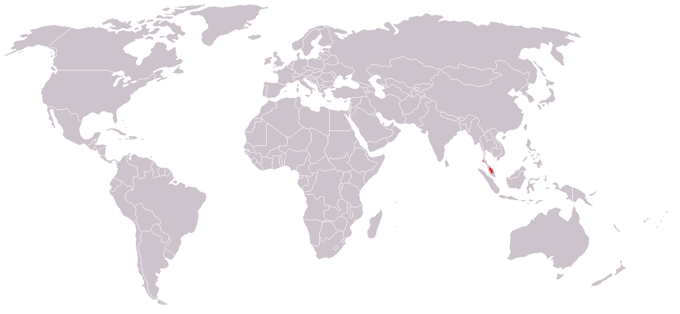 Map of Panthera tigris jacksoni scattering, with national borders added